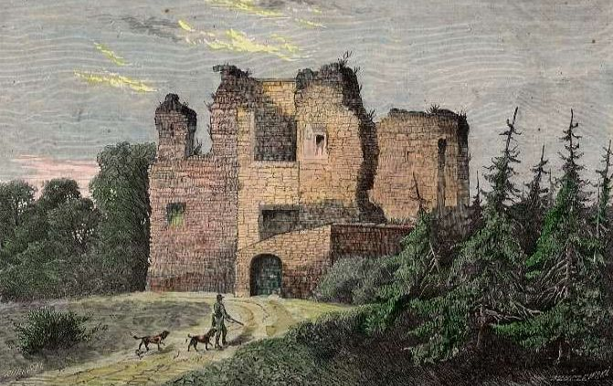 Ruined castle in Paniowce